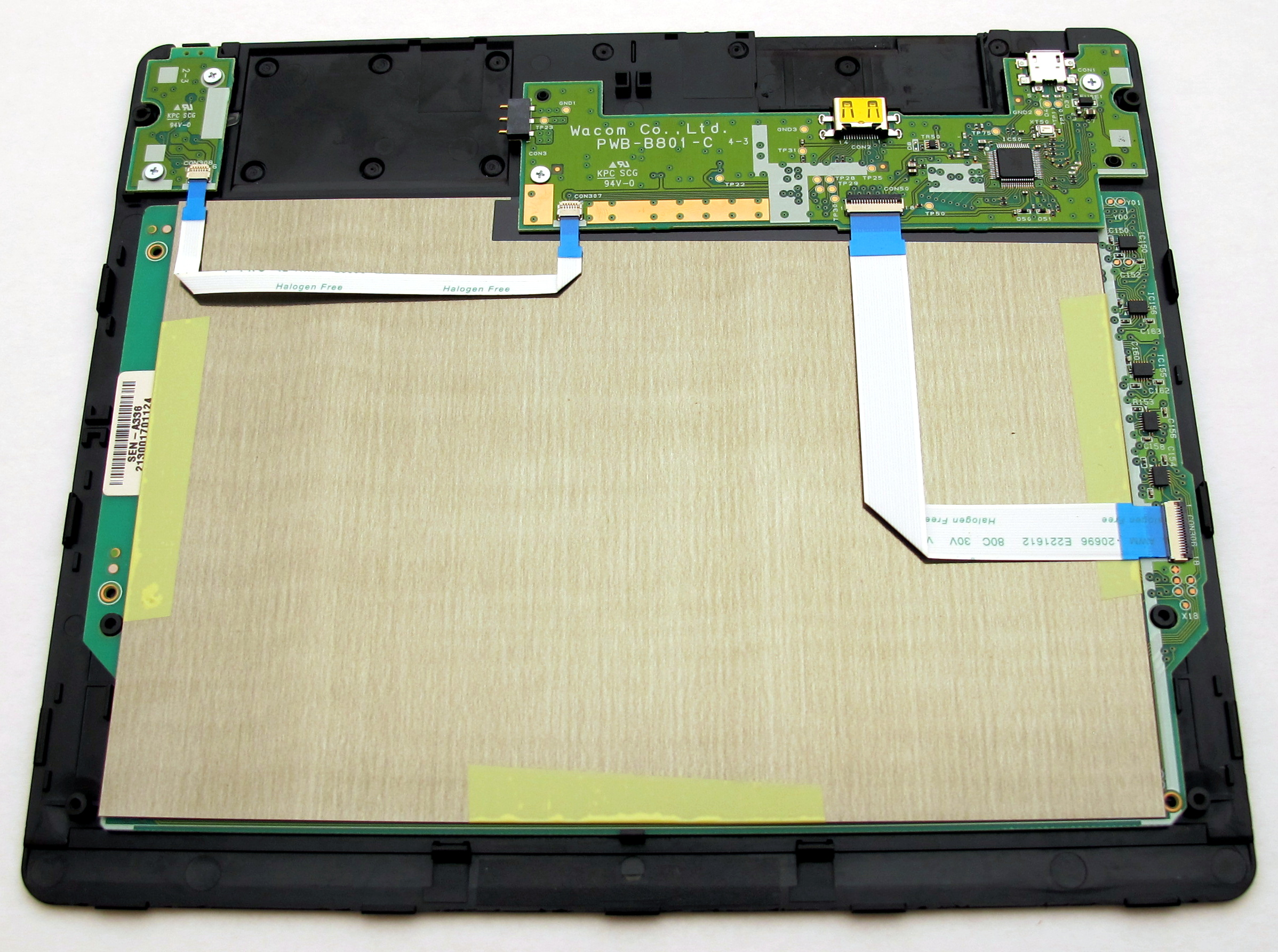 Open graphics tablet Wacom CTL-480 with controller board with USB interface on top and inductive sensor board beneath a silver-brown shielding cover